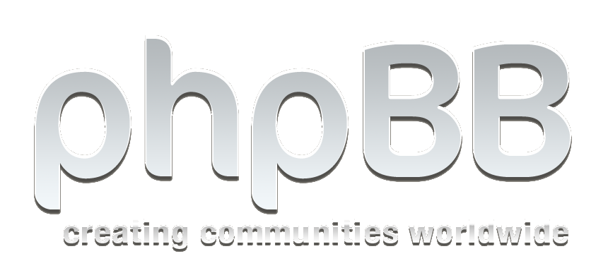 phpBB logo